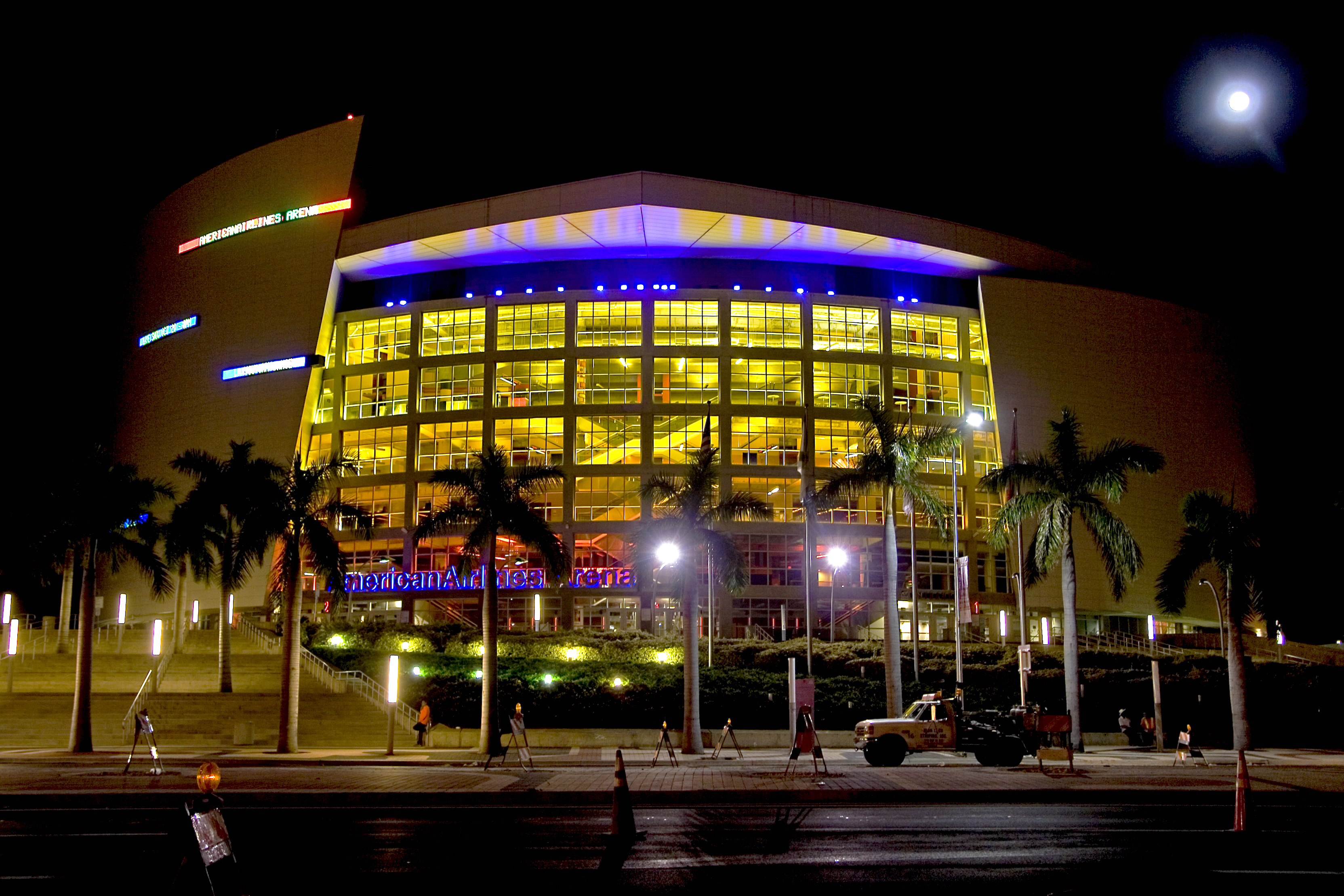 Night picture of American Airlines Arena in Miami, FL, taken by Edgar Serrano